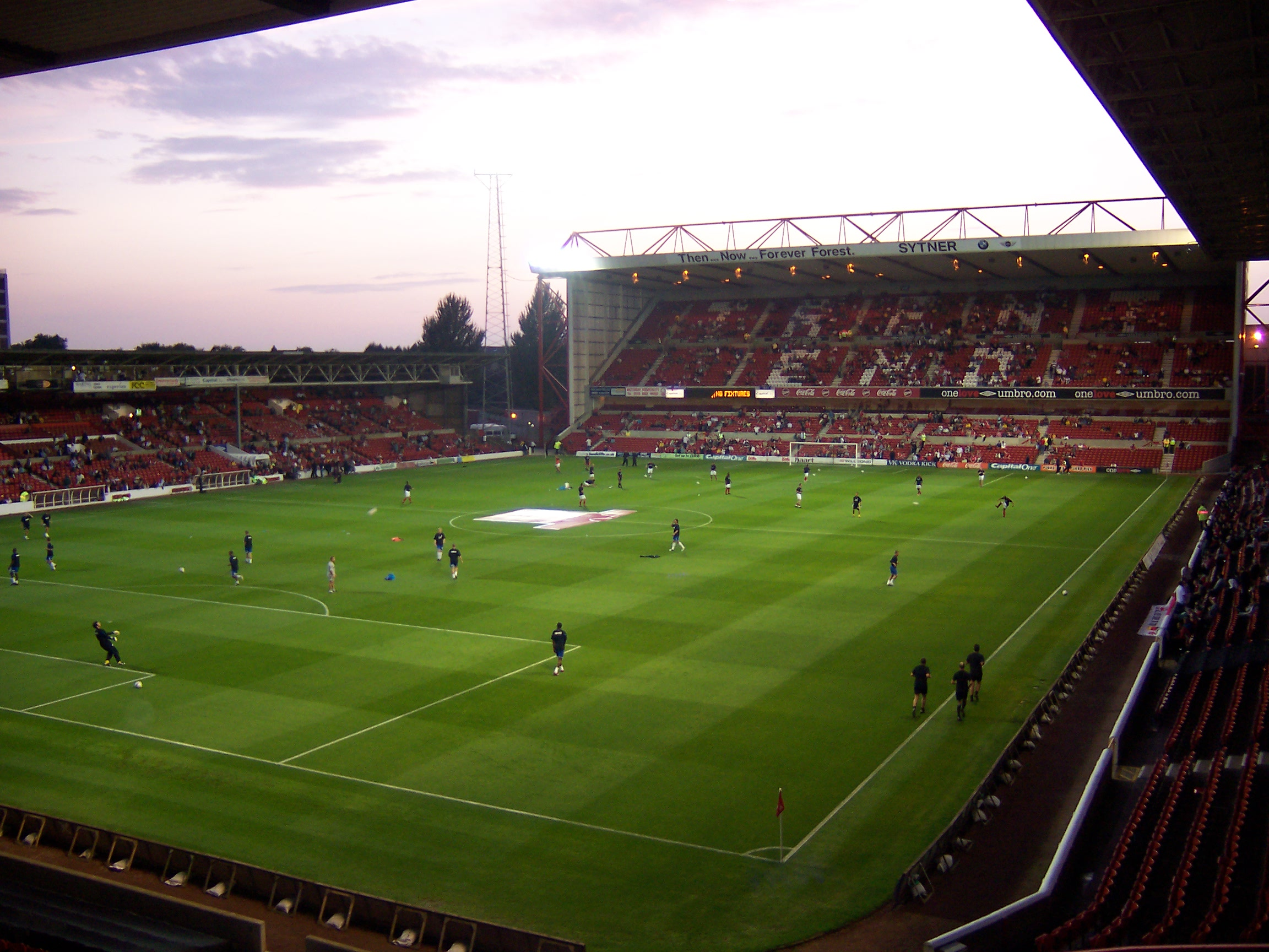 The City Ground